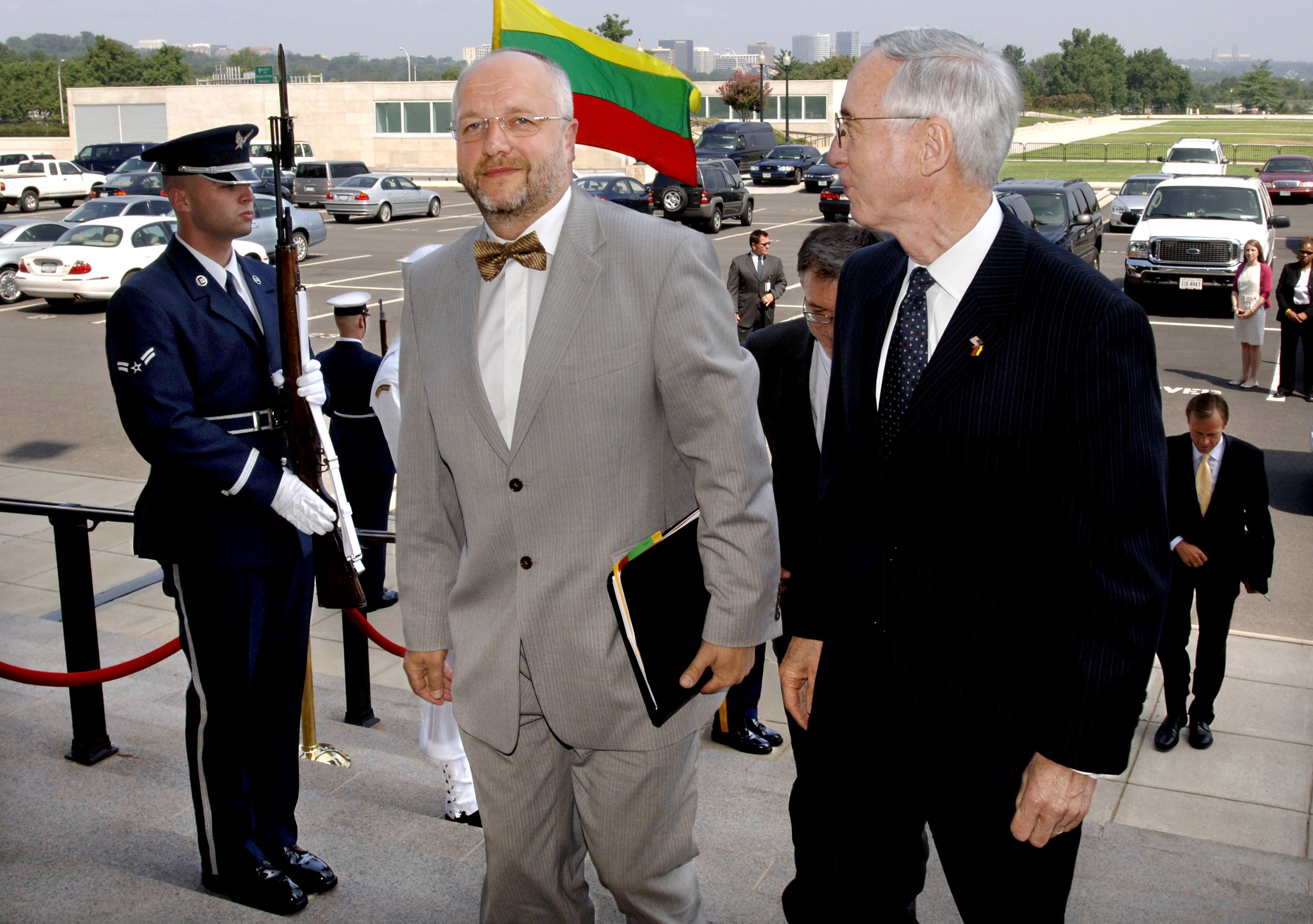 Lithuanian Minister of Defense Juozas Olekas (left) arrives at the Pentagon, Aug. 8, 2007, for security discussions with Deputy Defense Secretary Gordon England (right)